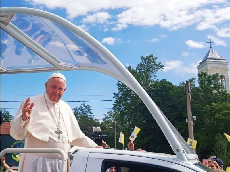 Pope Francis in Rakovski